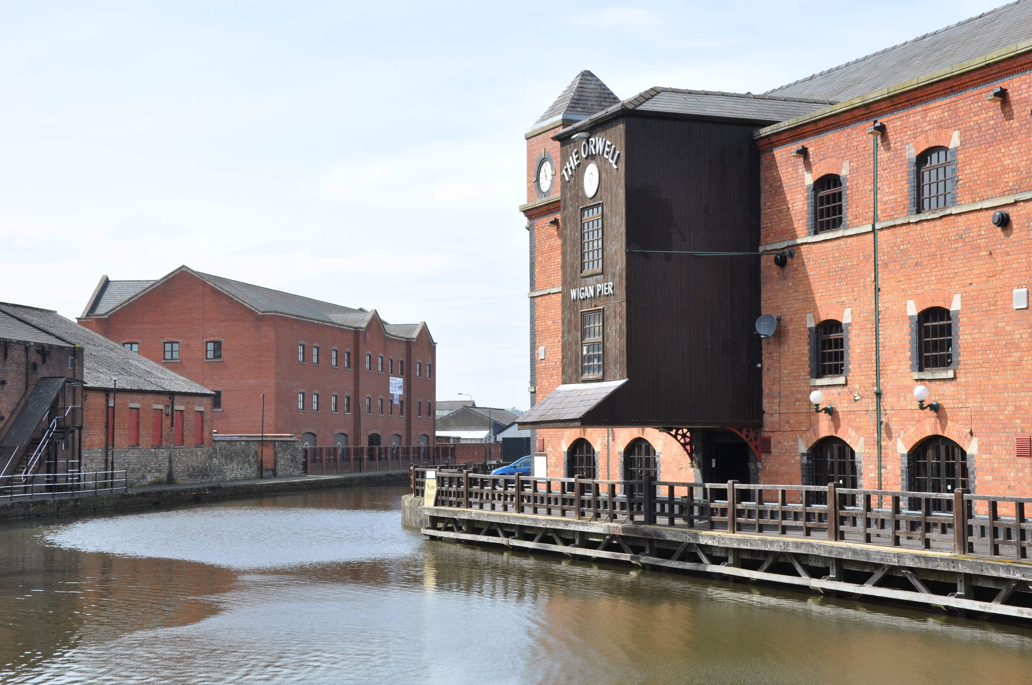 Wigan Pier - UK